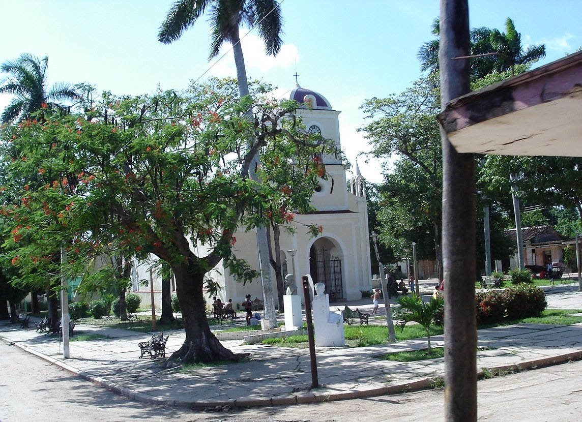 Guara park in Melena del Sur